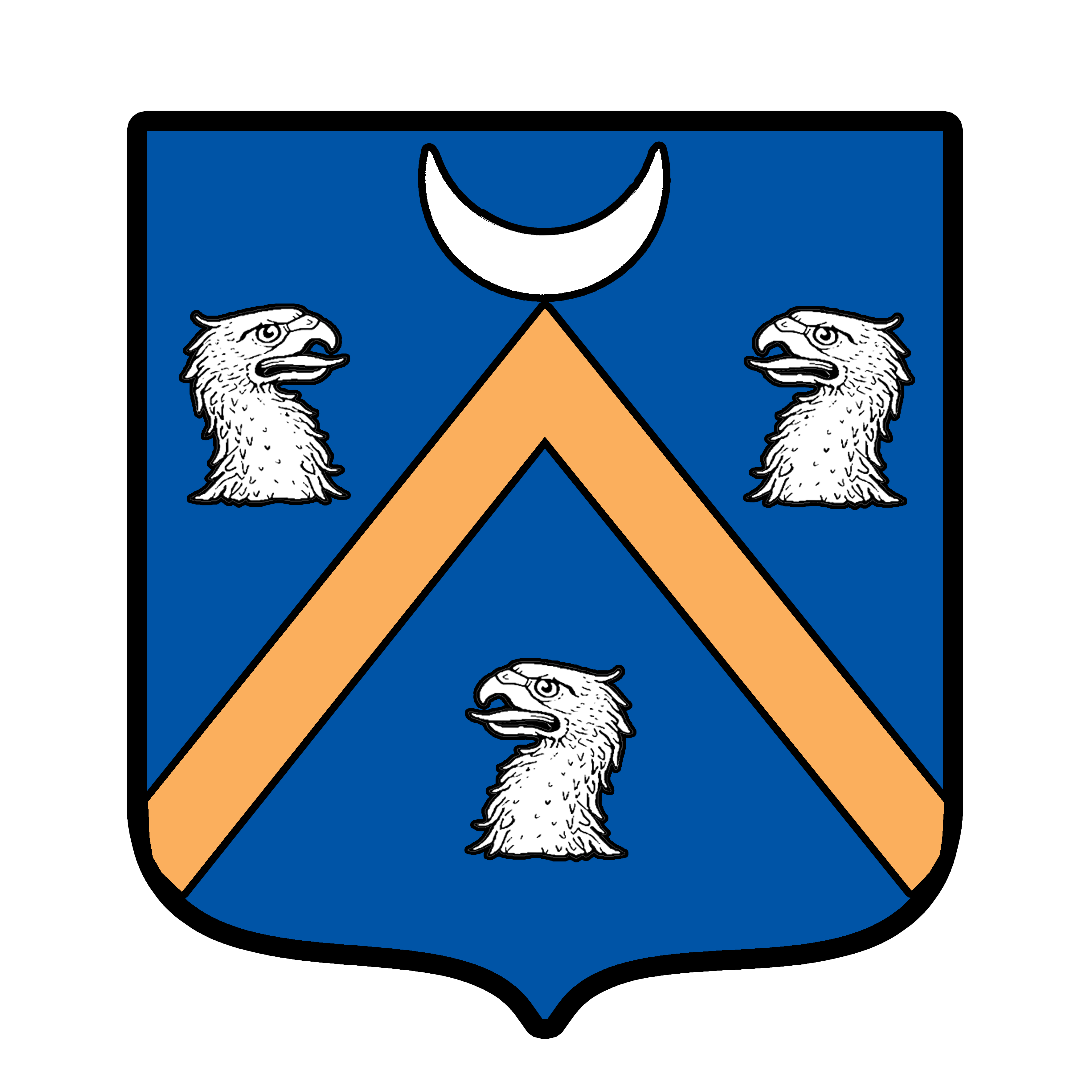 Blason Hegoburu